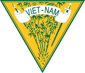 SOUTH VIETNAM